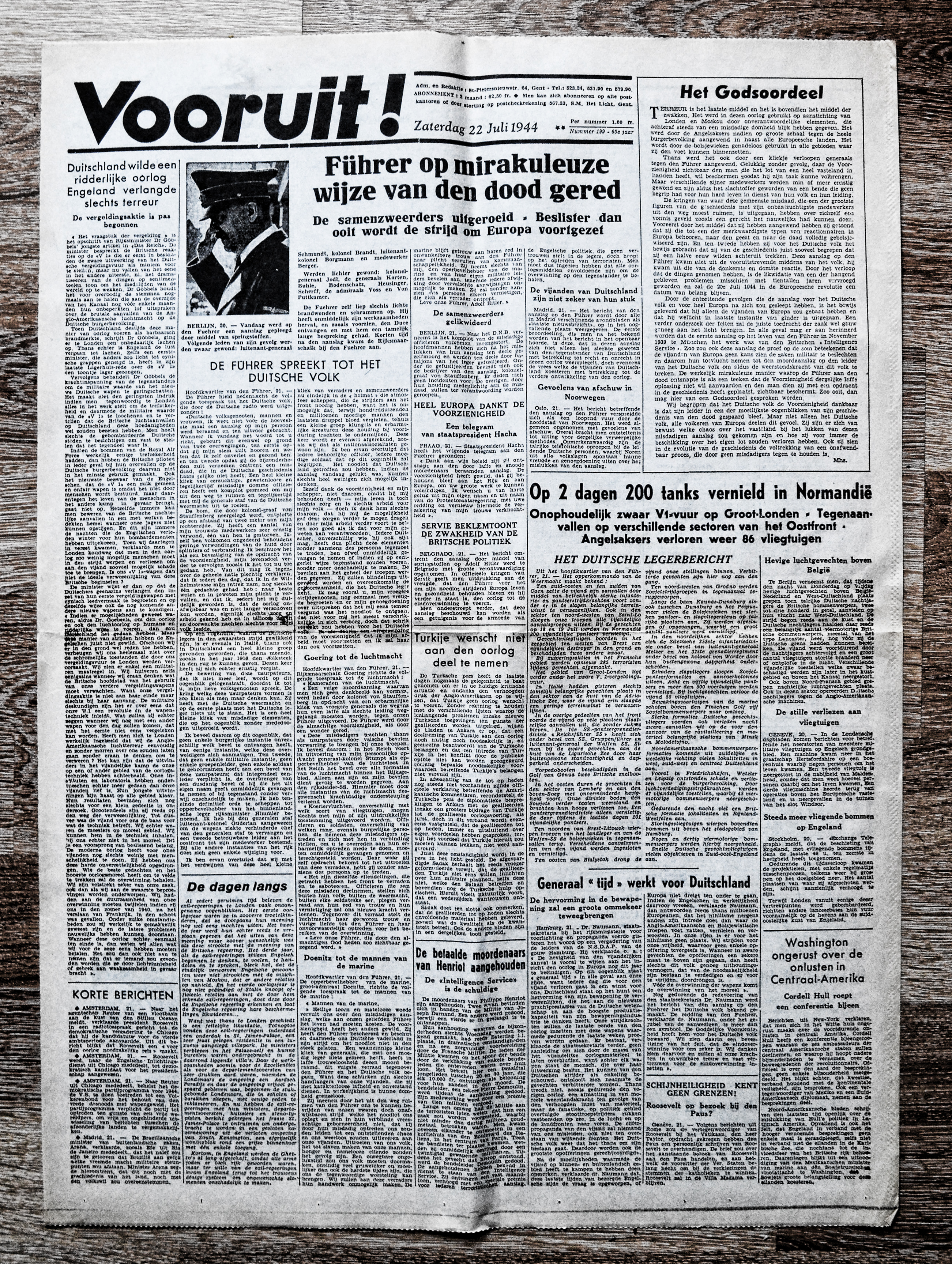 Front page Flemish Socialist newspaper "Vooruit" July 22 1944. with the headline "Furher miraculously saved from death" dedicated to the "Plot of 20 July 1944". (Operation Valkyrie)